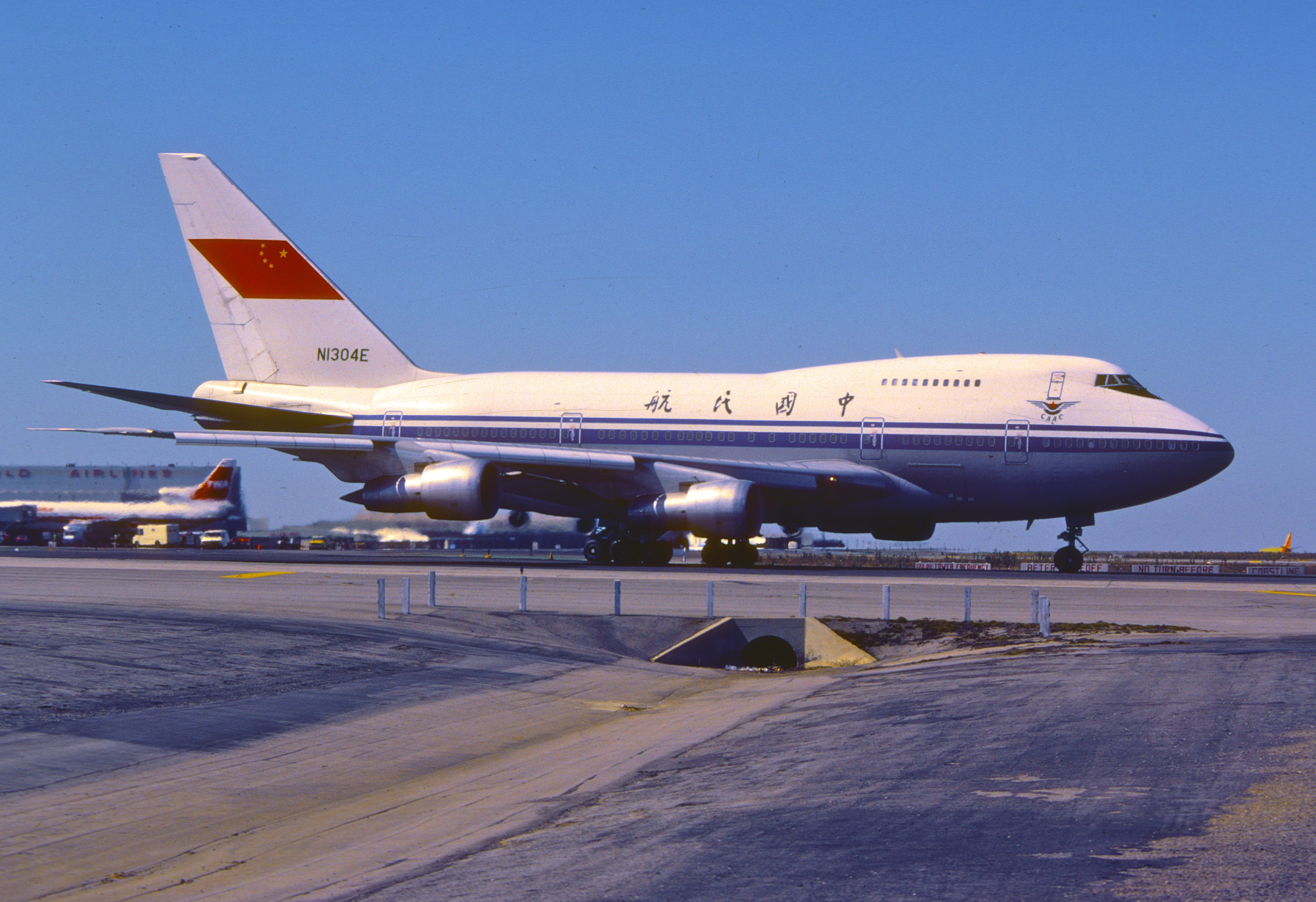 A socialist 747 in California...